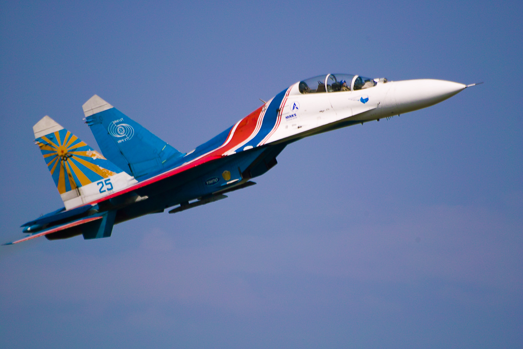 SU-27 at airshow. 17. Aug 2008. Day of aircraft.